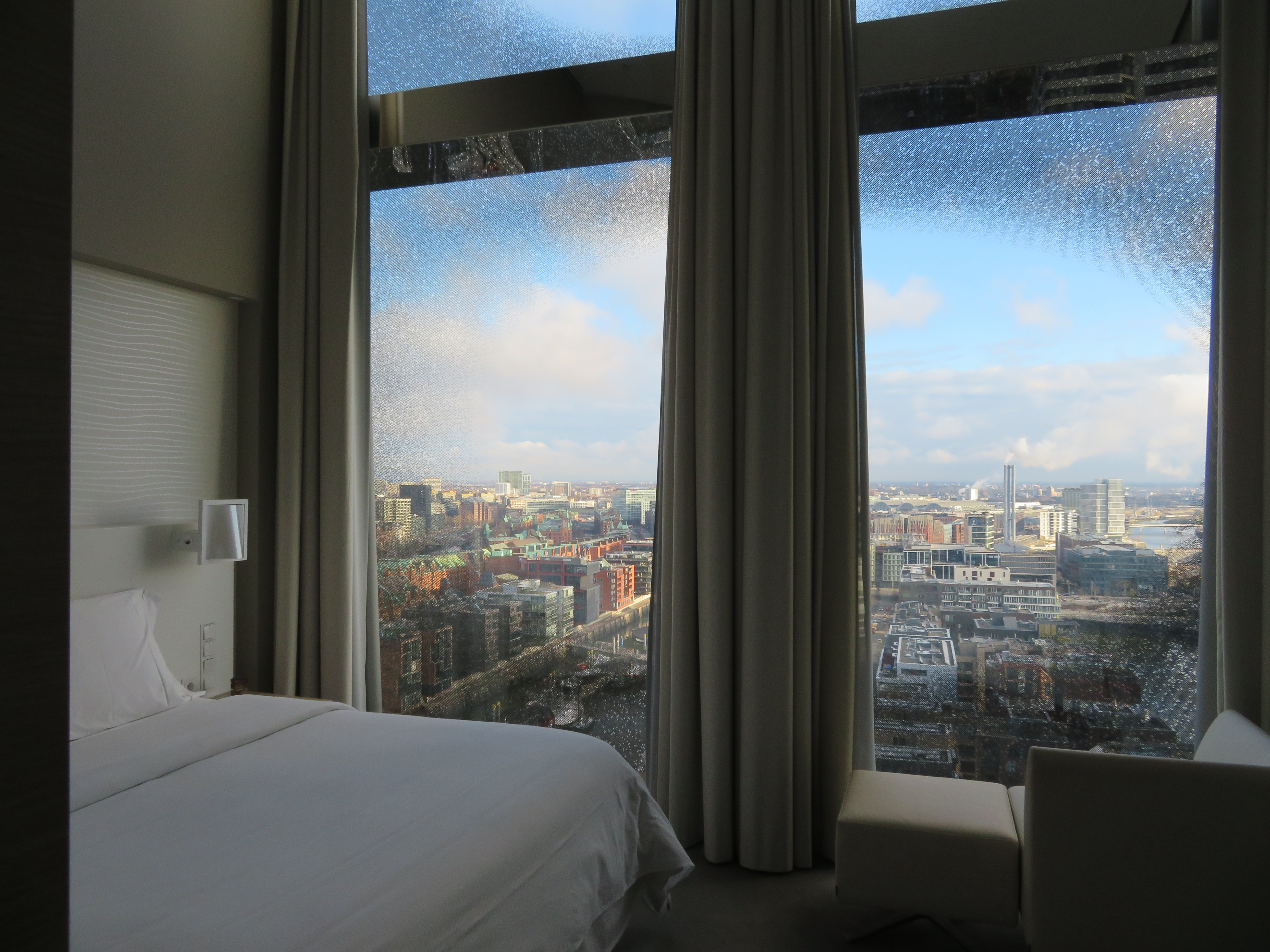 The Westin Hamburg, 19th floor